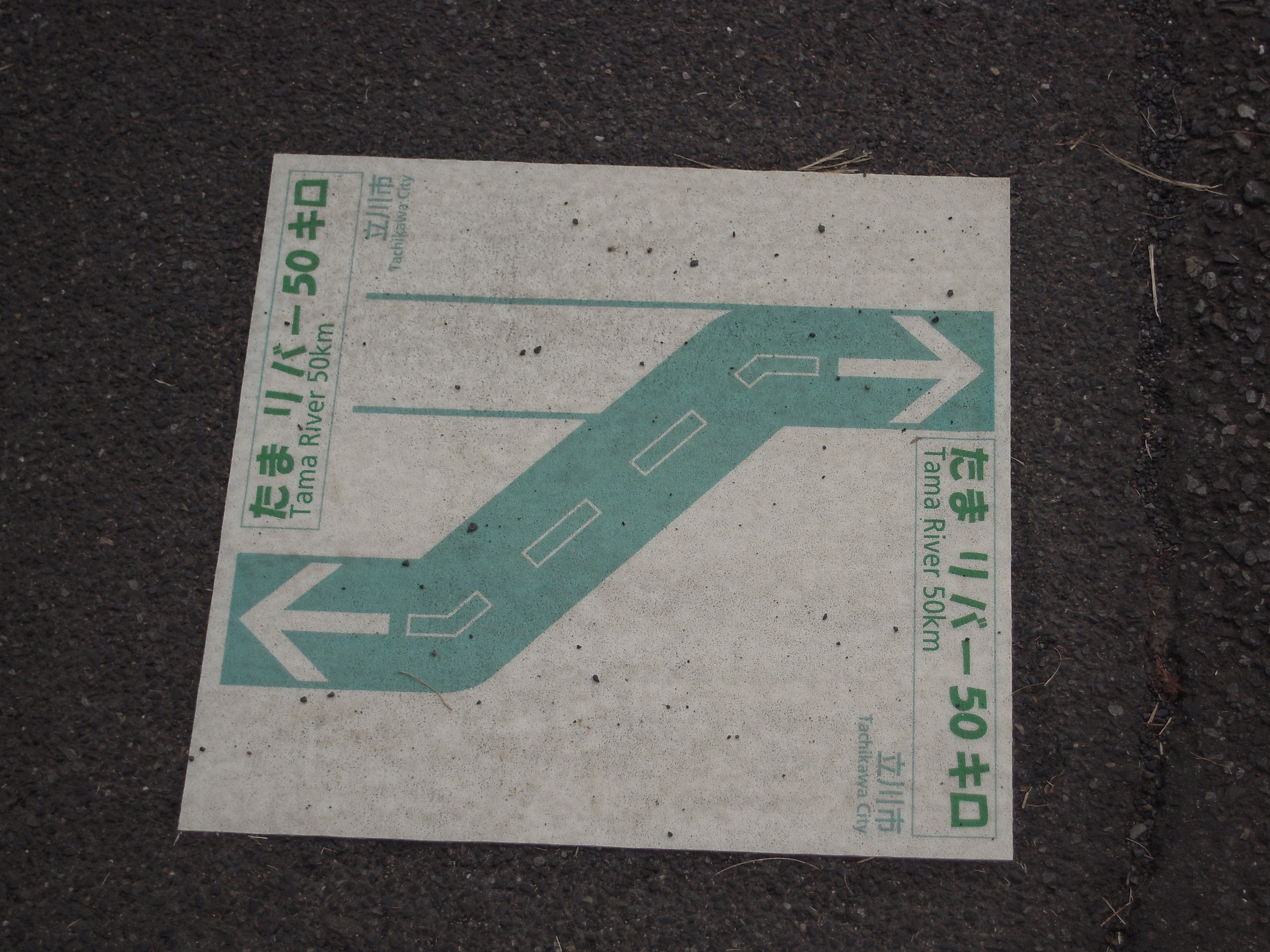 Road sign of Tamagawa cycling roads